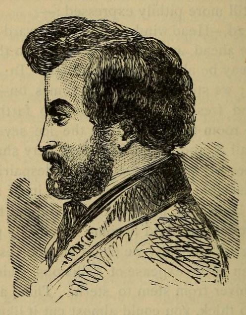 Sigurdr son of Jonas Icelander 1856. Guide and Companion of Dufferin. Law student at Copenhagen.